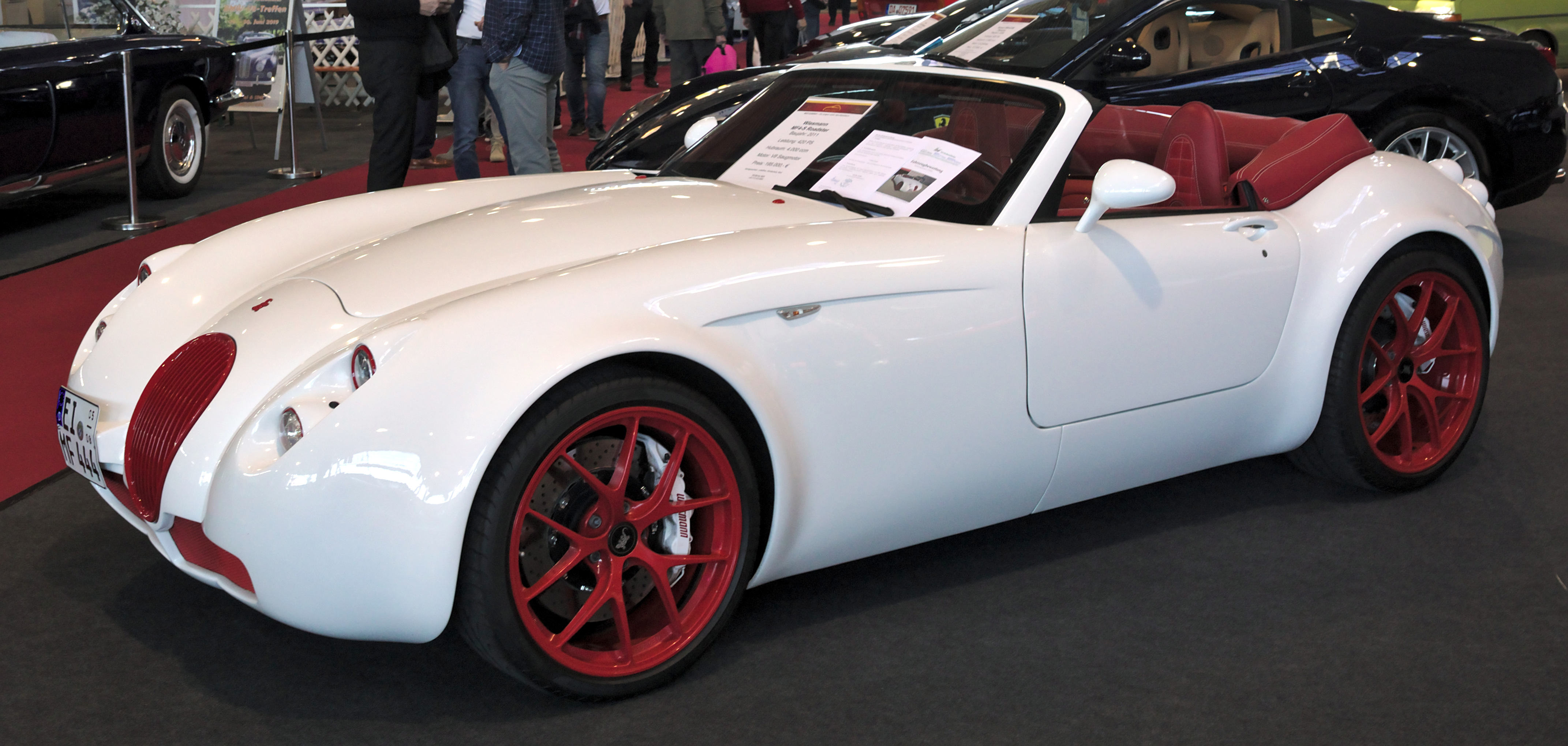 Wiesmann MF4-S Roadster at Retro Classics 2019